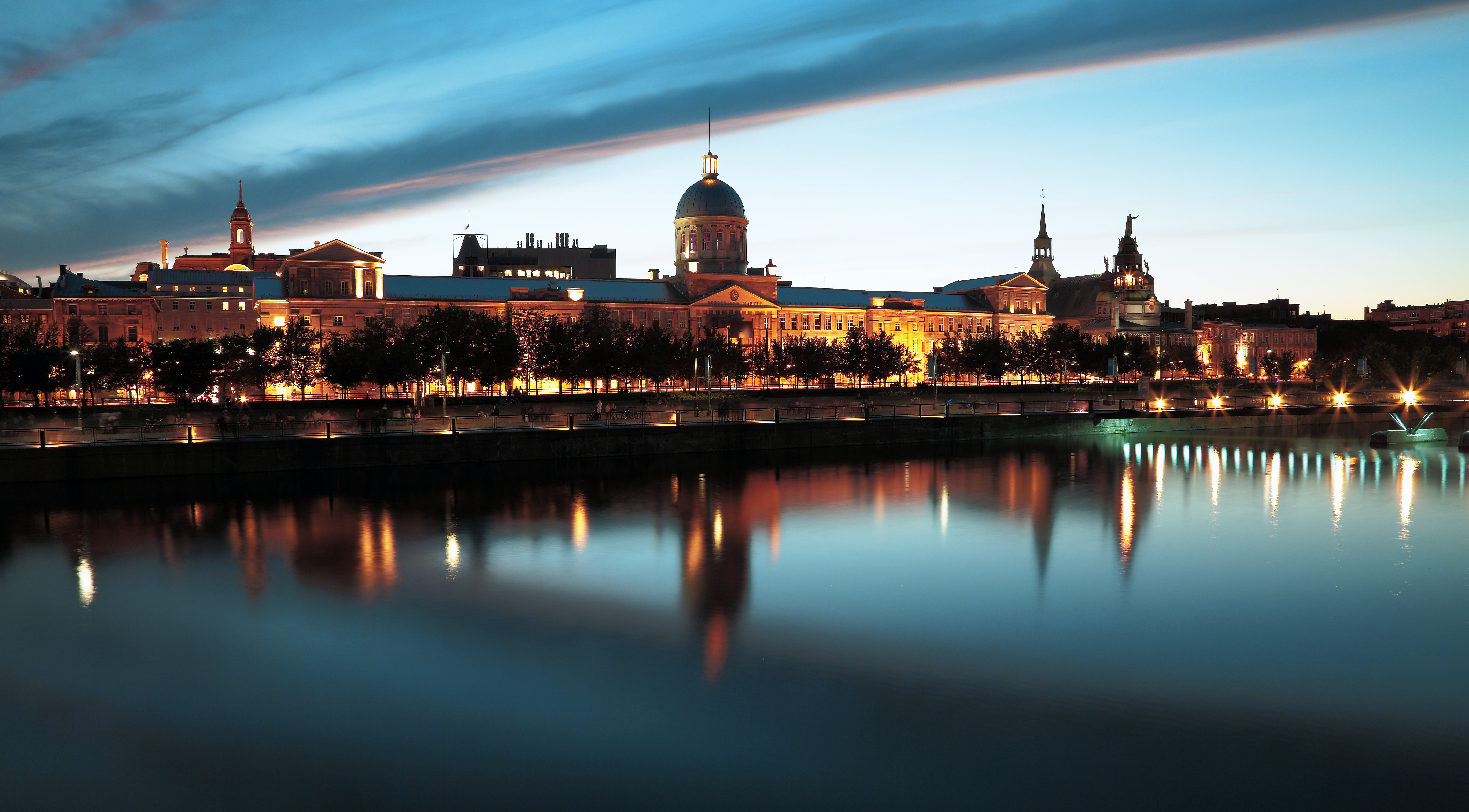 old port